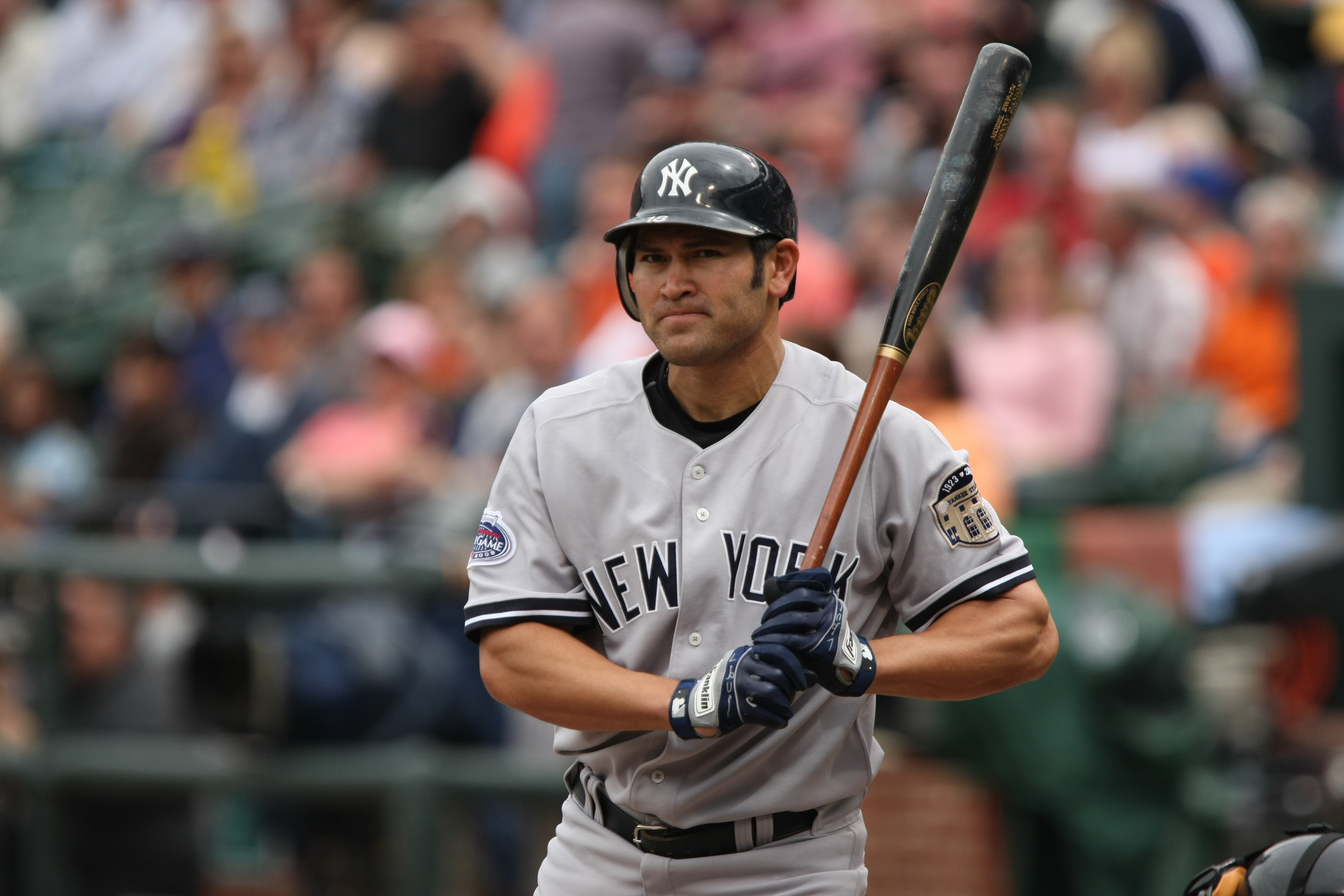 baseball player as shot by photographer Keith Allison